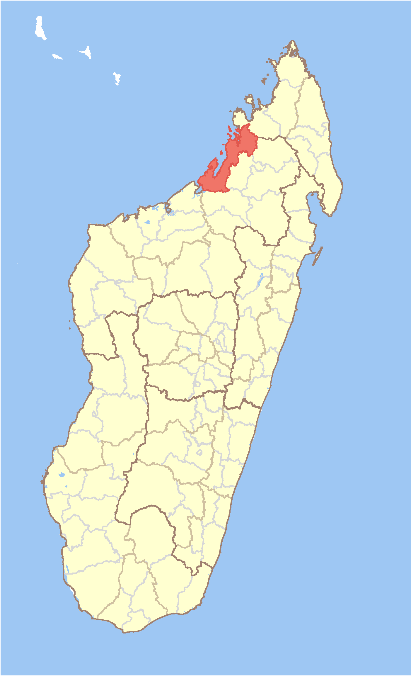 Map of Madagascar with Analalava District highlighted